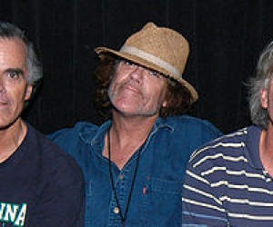 Crop of Barry Cowsill